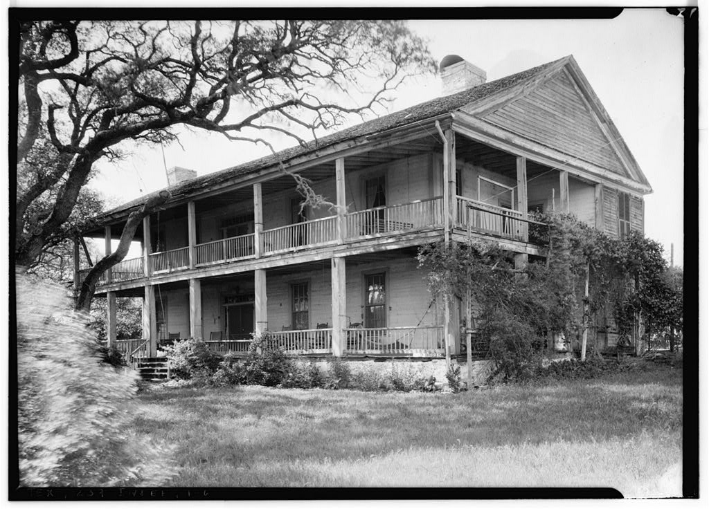 The Seward Plantation House — near Independence, in Washington County, Texas. Listed on the National Register of Historic Places in Washington County, Texas.. Image: HABS—Historic American Buildings Survey of Texas.